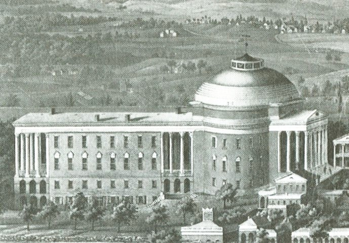 University of Virginia: Rotunda and Annex. Lithograph from 1856. (The proportions of the Rotunda and the Annex are exaggerated in comparison to the other buildings.) Description from University of Virginia Visual History Collection: Title: View of the University of Virginia, Charlottesville & Monticello, taken from Lewis Mountain (...) Comments: University of Virginia, from the west, showing Rotunda, Annex, Lawn, Ranges, and Anatomical Theatre. Published by Casimir Bohn, Washington, D.C. and Richmond, VA, labeled, lower left, "Drawn from Nature & Printed in Colors by E. Sachse & Co." labeled, lower right, "Sun Iron Building, Baltimore Md." 13 b&w photographs Image Filename: prints00017 Accession Number: MSS 2535 Copy Negative Number: ps1946